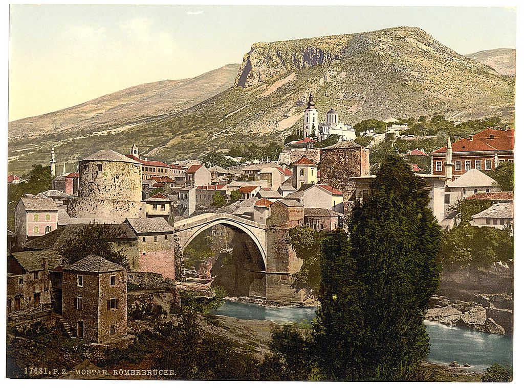 Mostar in period 1890-1900